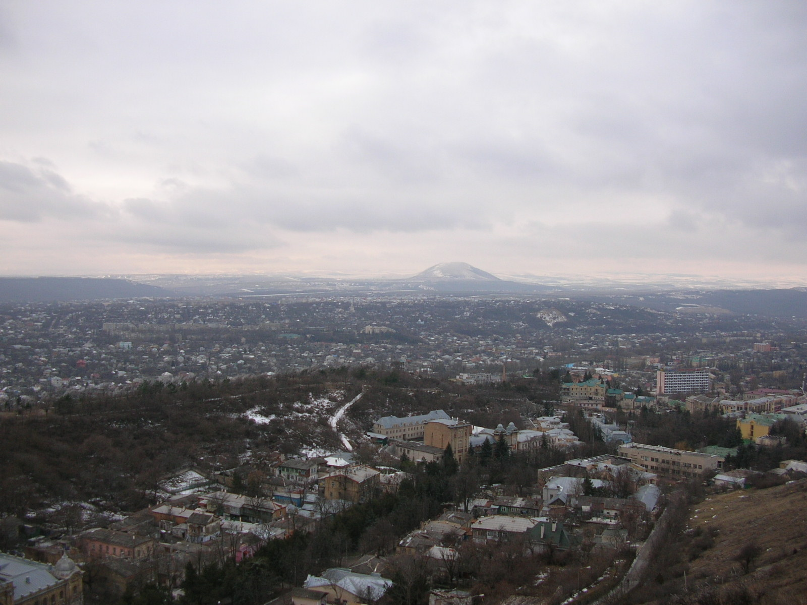 View of Pyatigorsk from Mt.Mashuk